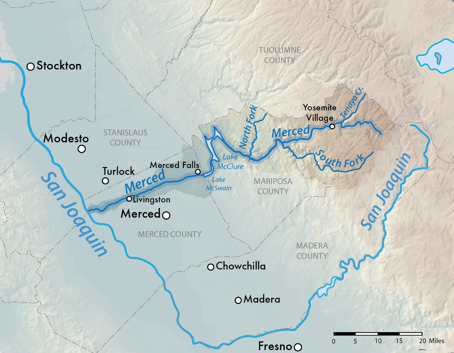 Map of the Merced River watershed in Central California, USA. Shaded relief from US Geological Survey.